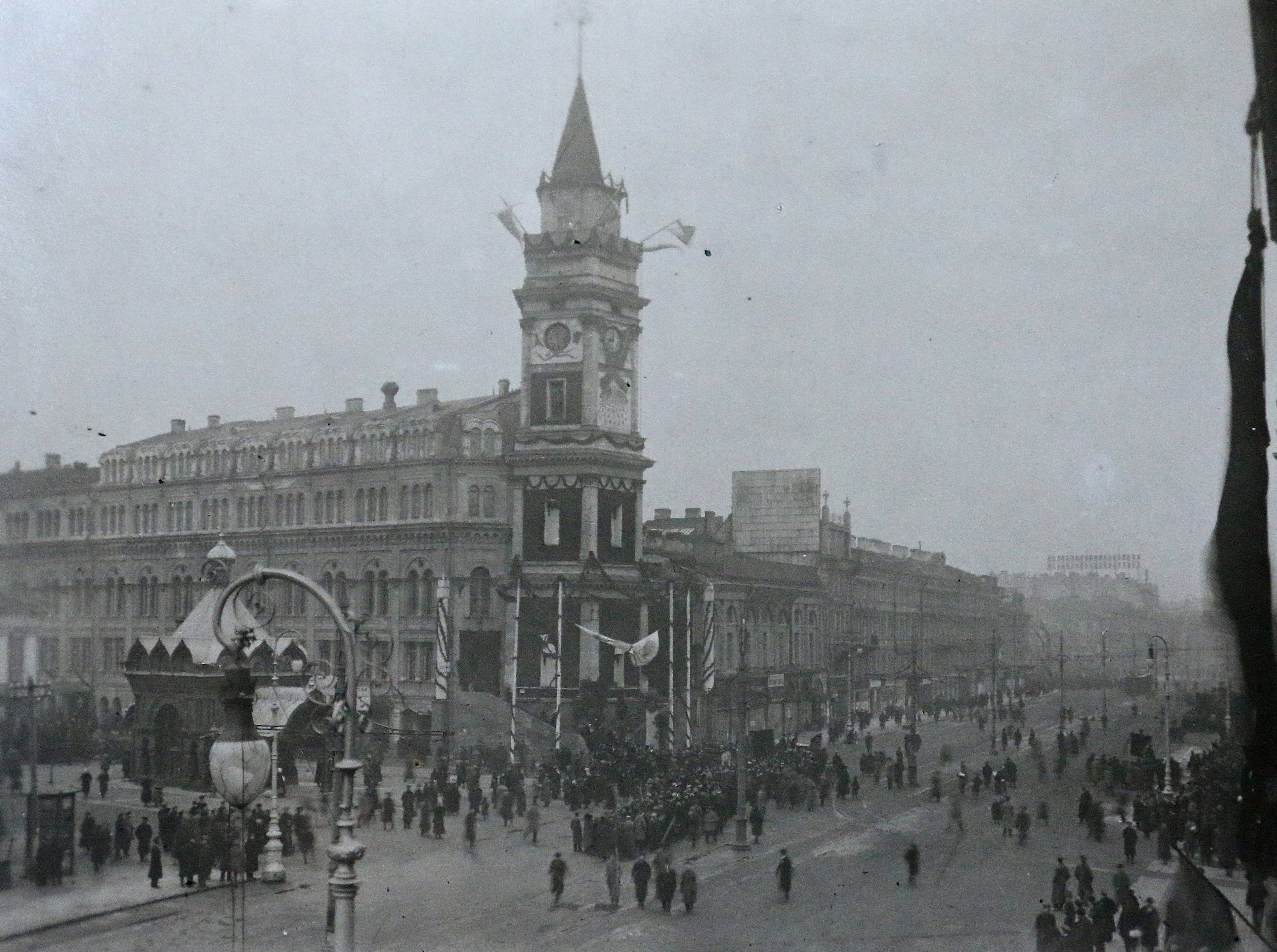 Boris Souvarine Papers - Soviet Russia Photos Notes: The back of the document holds the mention (in French): "House of Lassal (sic), October Feast Days". The event shows a commemoration which took place in the occasion of the anniversary of the October Revolution. The "House of Lassal" may designate a building in Saint-Petersburg, where there was a bust by V. A. Sinaysky of German socialist activist and founder of the General German Workers' Association (ADAV) Ferdinand Lassalle (1825-1864). A 1930 photo of this building can be found online: Other information about this monument, destroyed in 1938, can be found here: (in Russian). Unknown photographer. Description: 1 photograph. Black and white ; 12 x 16.5 cm. Sources and further reading: Gayraud, Regis. 2012. Les actions de masse des années 1920 en Russie : un nouveau spectacle pour la révolution. In : Annales historiques de la Révolution française. 2012/1, n°367, pp. 175-193. [Available online] URL